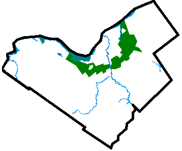 The city of Ottawa, located in the middle of the map, is surrounded by the Ottawa Greenbelt. Greenbelt surrounding Ottawa, Ontario (1950).